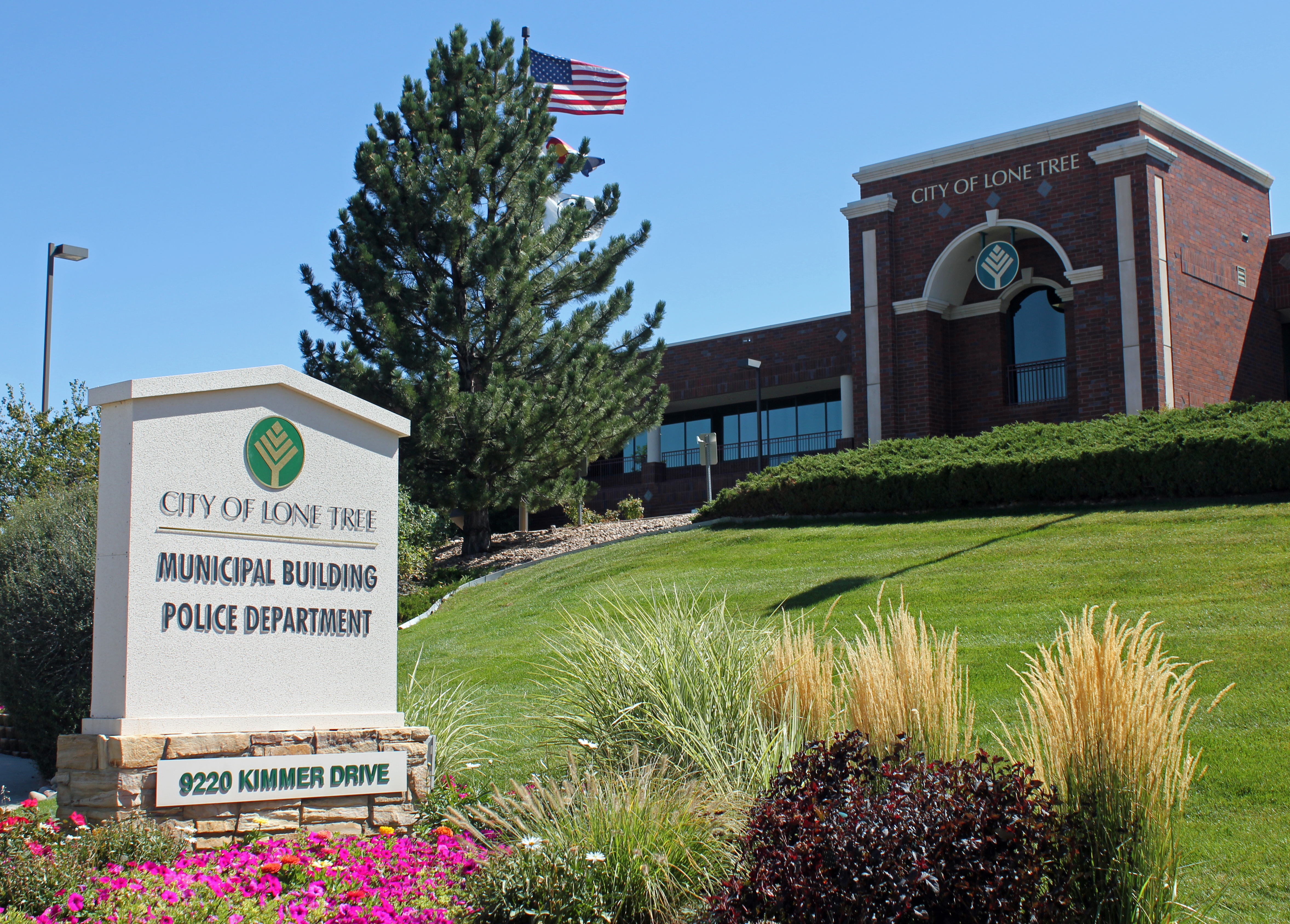 The Lone Tree, Colorado Municipal Building (City Hall), located at 9220 Kimmer Drive in Lone Tree, Colorado.